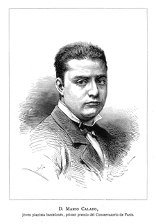 The pianist Màrius Calado i Colom (Barcelona 1862 - 1926)